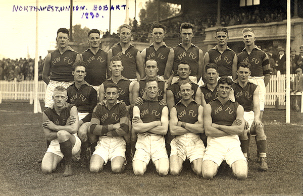 The North West Football Union representative team.